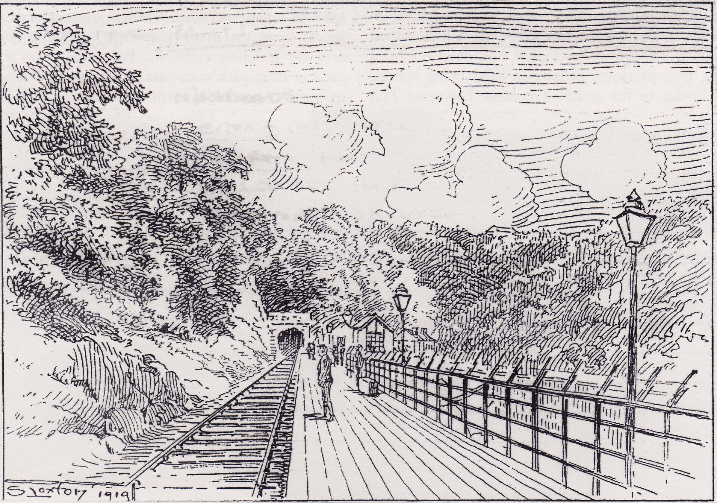 A 1919 drawing of Hotwells Halt railway station.